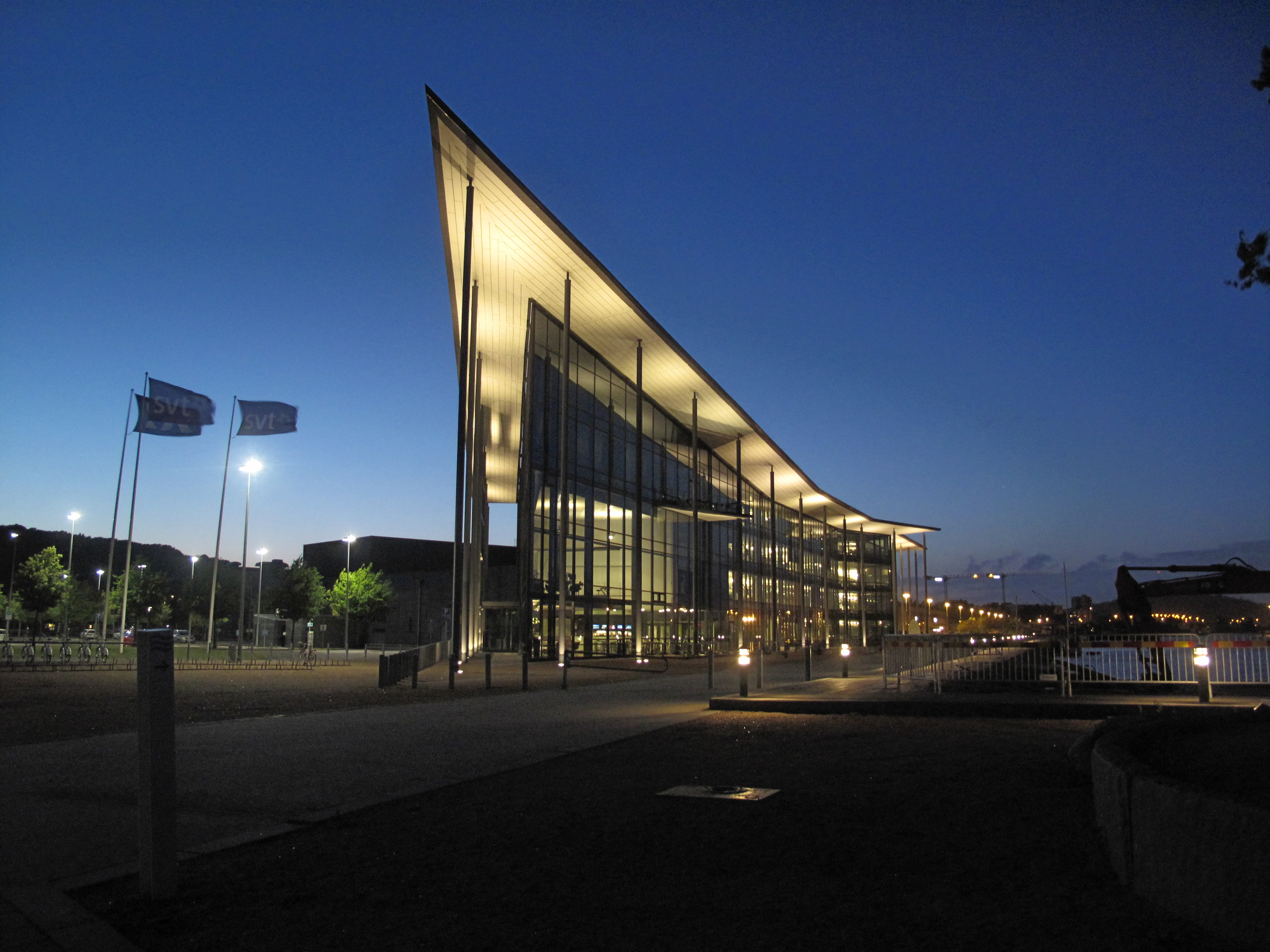 Kanalhuset at the blue hour. Swedish television in Gothenburg.